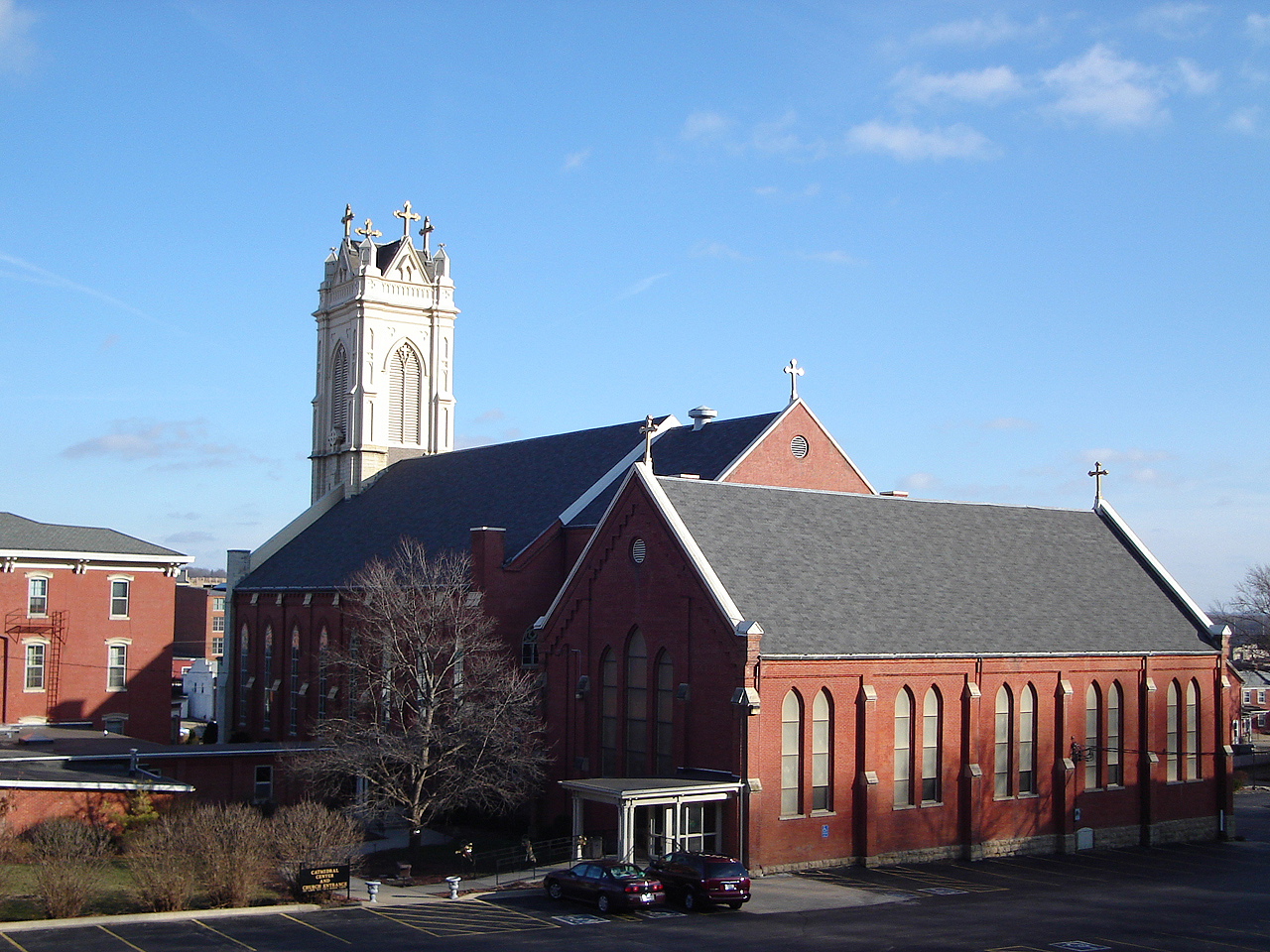 Description: The rear side of St. Raphael's Cathedral in Dubuque Iowa - Source: I took this photo - Date: Dec 23, 2006 - Author: Daniel Callahan